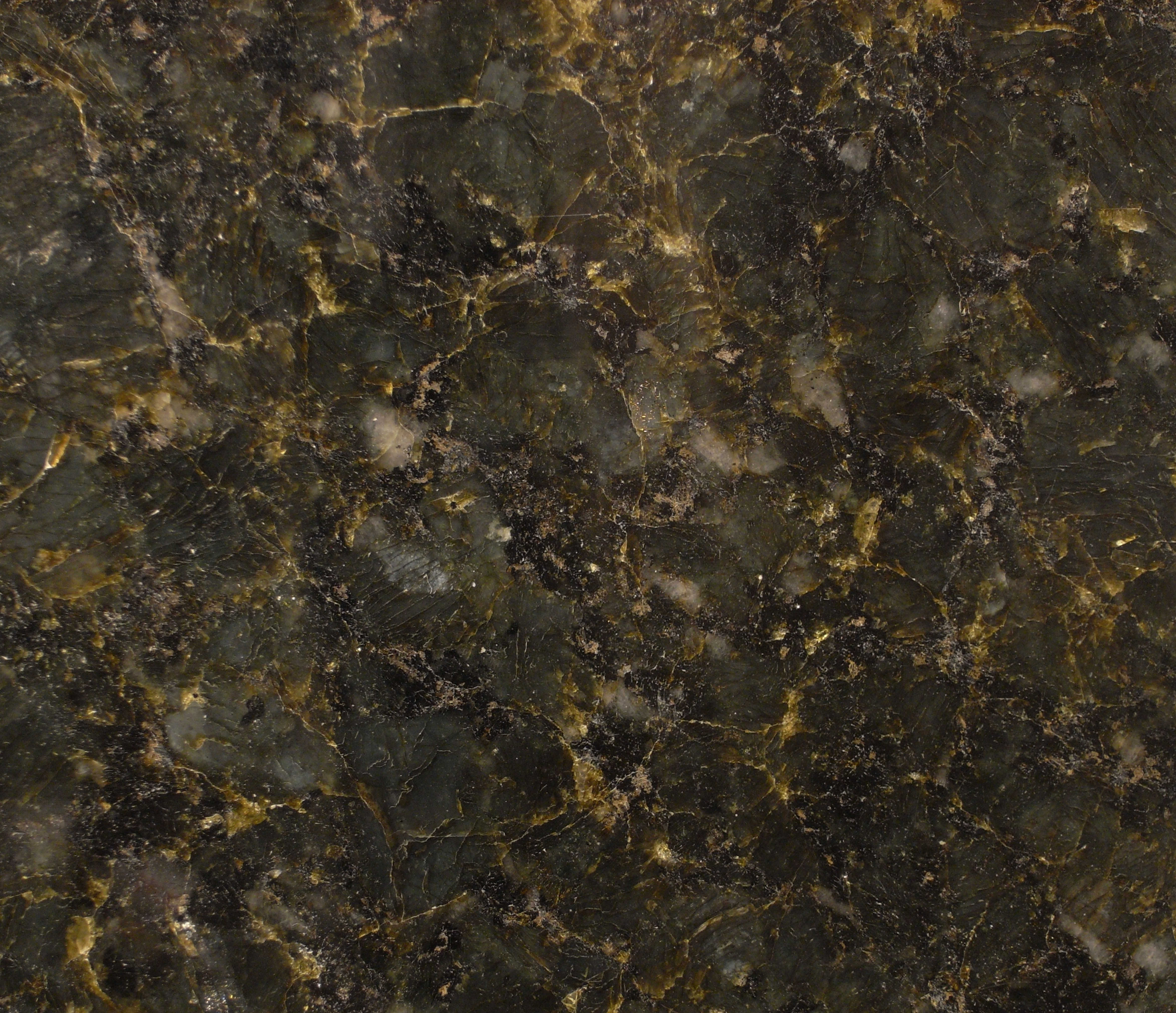 Charnockite, VERDE UBATUBA (Ubatuba, state São Paulo, Brasilia) size 12x10 cm